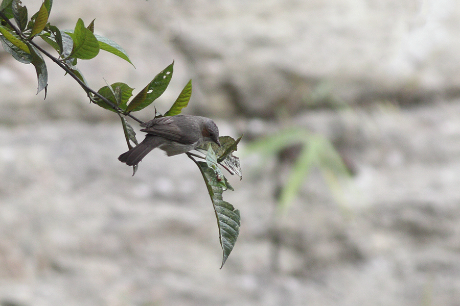 This Striated Yuhina has been photographed from bird photography tour to Eaglenest wildlife sanctuary in March 2019.